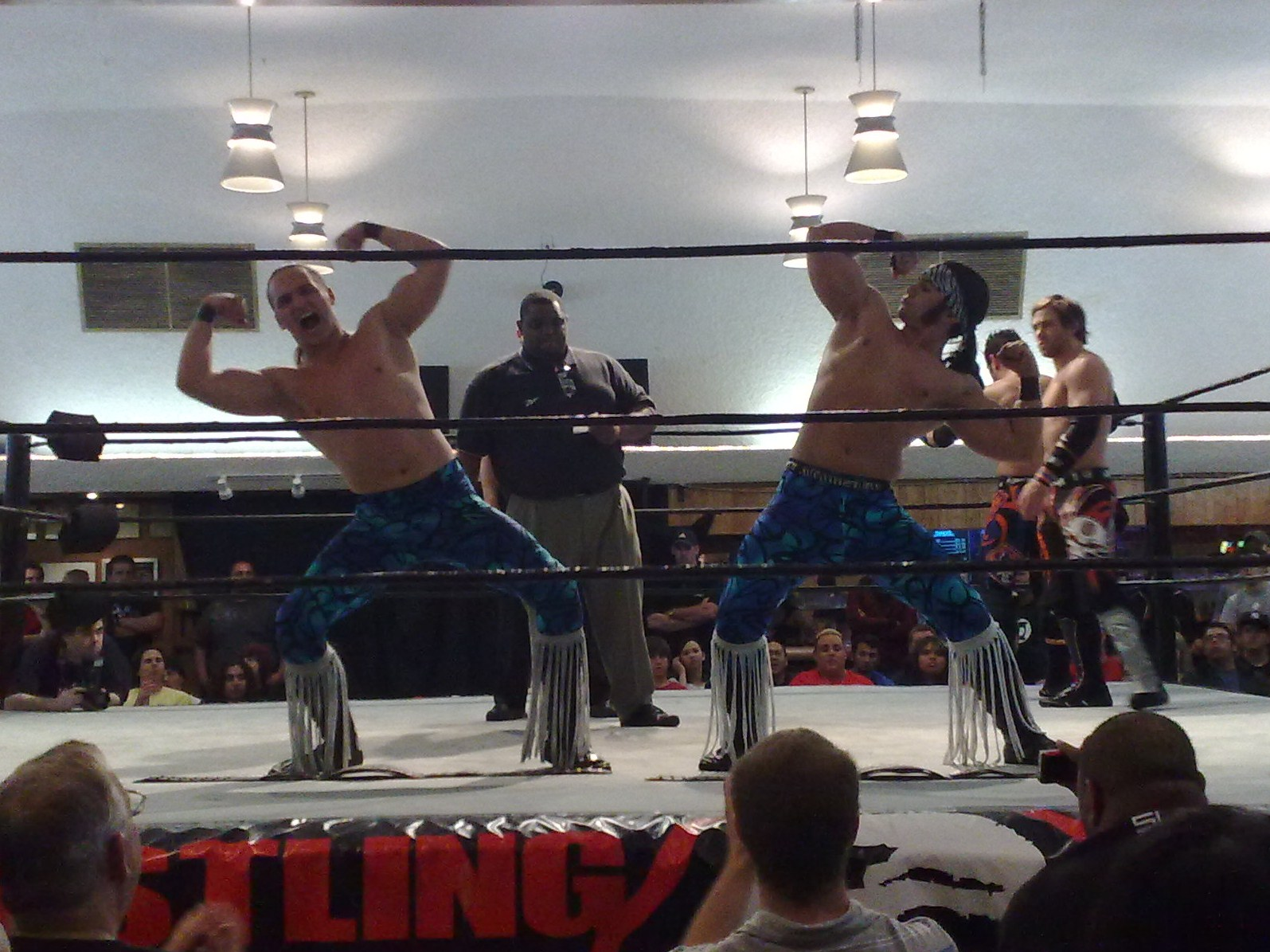 Professional wrestlers The Young Bucks (Matt, right, and Nick Jackson, left) pose in the ring at Pro Wrestlinbg Guerrilla's 99 show on April 11, 2009.